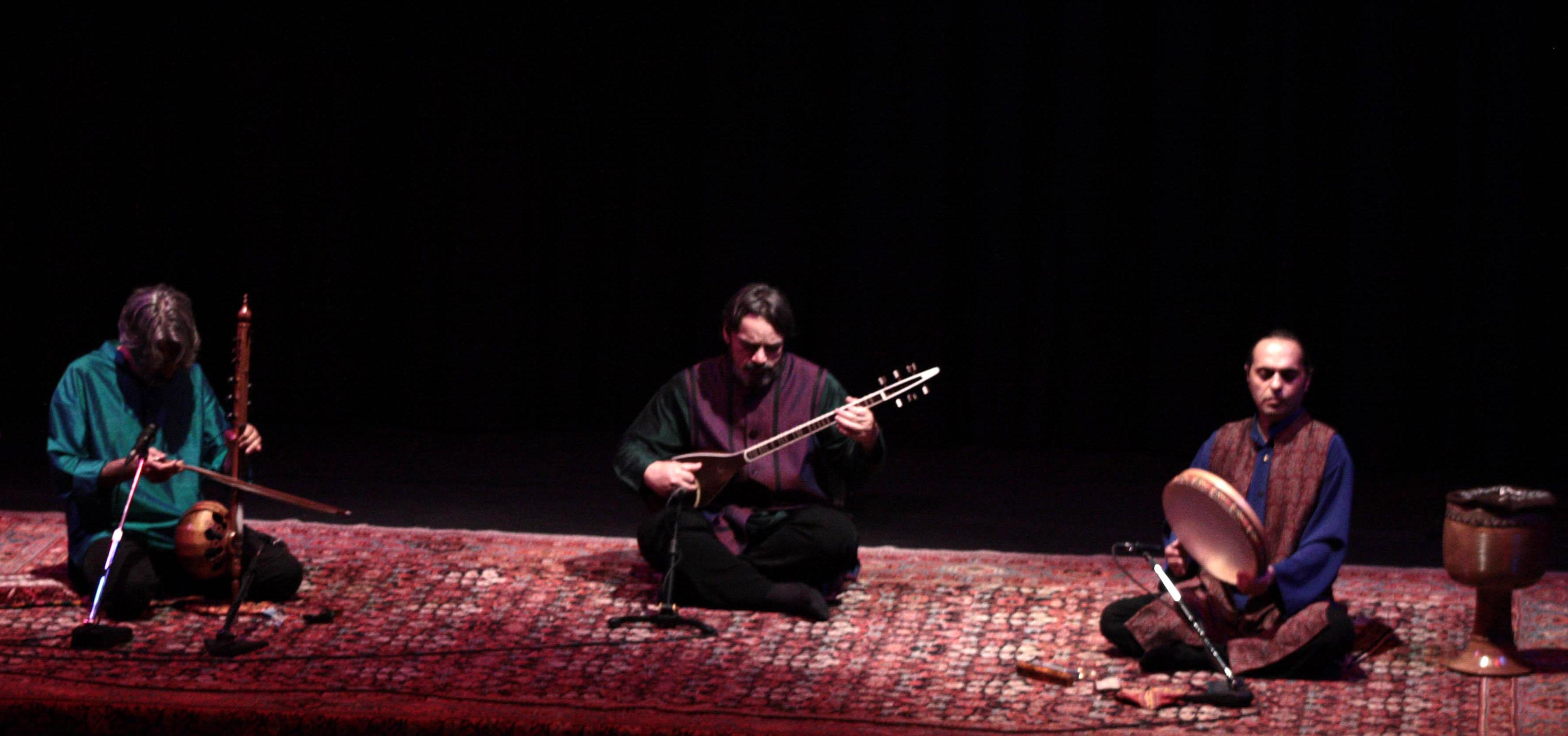 Persian concert in milano - Google Maps - Google Earth